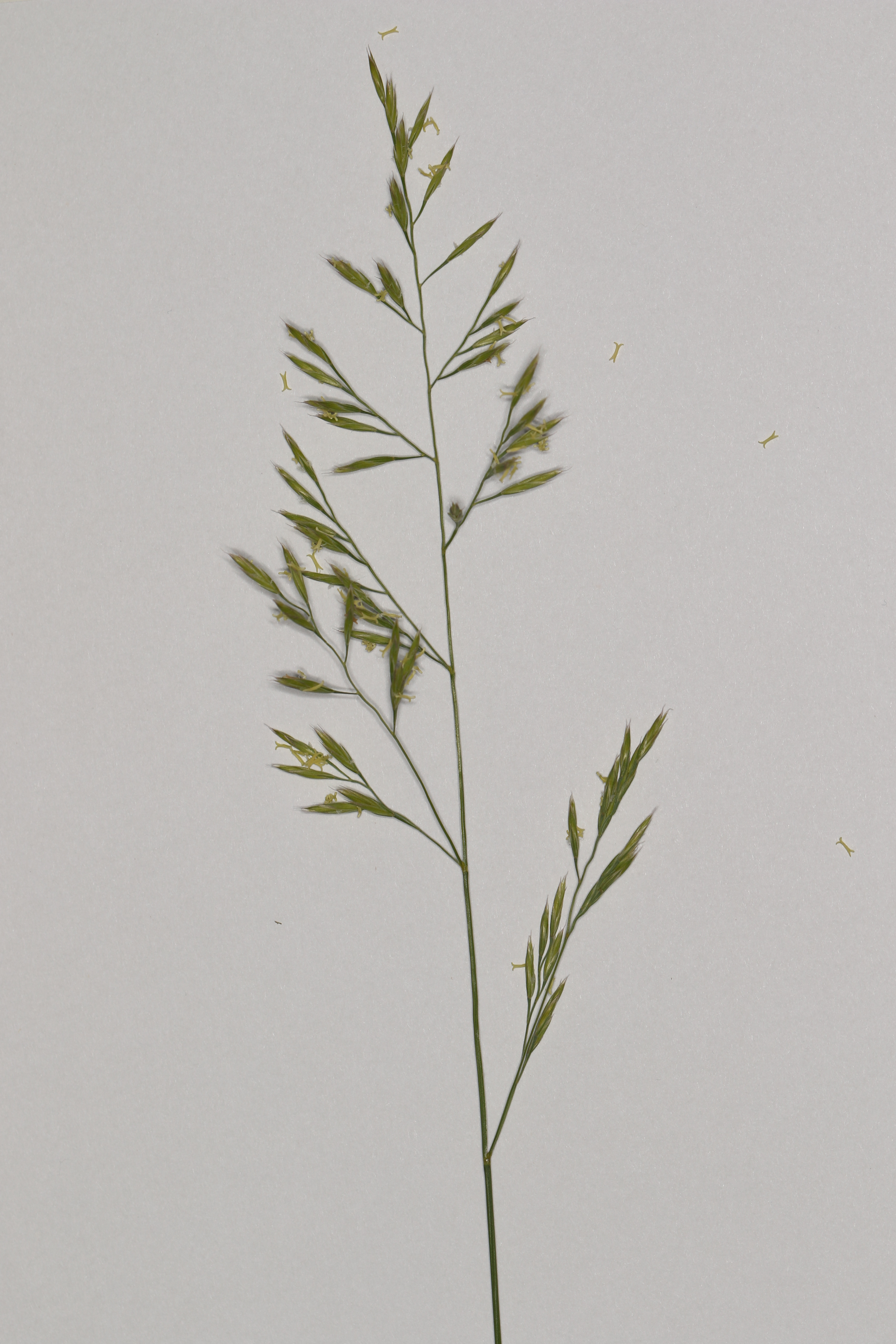 Festuca rubra L. subsp. fallax (Thuill.) Nyman, Søborg, Denmark, 30 May 2016